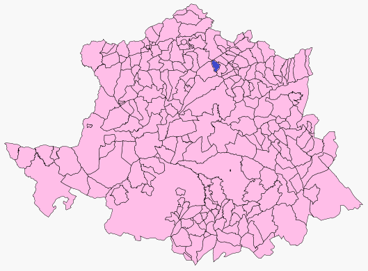 Villar de Plasencia